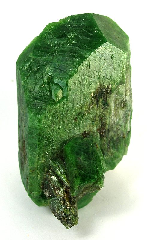 Diopside Locality: Outokumpu Cu-Zn deposit, Outokumpu Cu-Co-Zn-Ni-Ag-Au ore field, Itä-Suomen Lääni, Finland (Locality at ) Size: miniature, 5.6 x 3.7 x 3.3 cm Diopside (var. Chrome Diopside) THis amazing, doubly-terminated crystal is simply the best of its kind I have seen, and came as a surprise in the old collection of John Ydren of Los Angeles. It is doubly-terminated, complete, and lustrous, with a riveting, fake-looking , intense green color to it. This is the locality known for uvarovite garnet, but at the same time it was also an important locality for early study of many species of more common minerals, such as diopside, in crystalline form. As a classic, its worth something. But just as a neon green diopside, of really unique aspect and color, it leaps out and is good enough for any collector aside fro mits historic value, I think. I was really entranced with this piece.